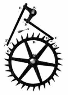 A diagram of the grasshopper escapement invented by British clockmaker John Harrison in 1722. An escapement is a mechanical linkage in a clock that gives the clock's pendulum periodic pushes to keep it swinging, and releases the clock's gear train to advance a fixed amount each swing, moving the hands forward at a steady rate. The grasshopper was an unusual low friction escapement that was used in a few clocks made by Harrison and the Vuillamy brothers, but did not see wide use.